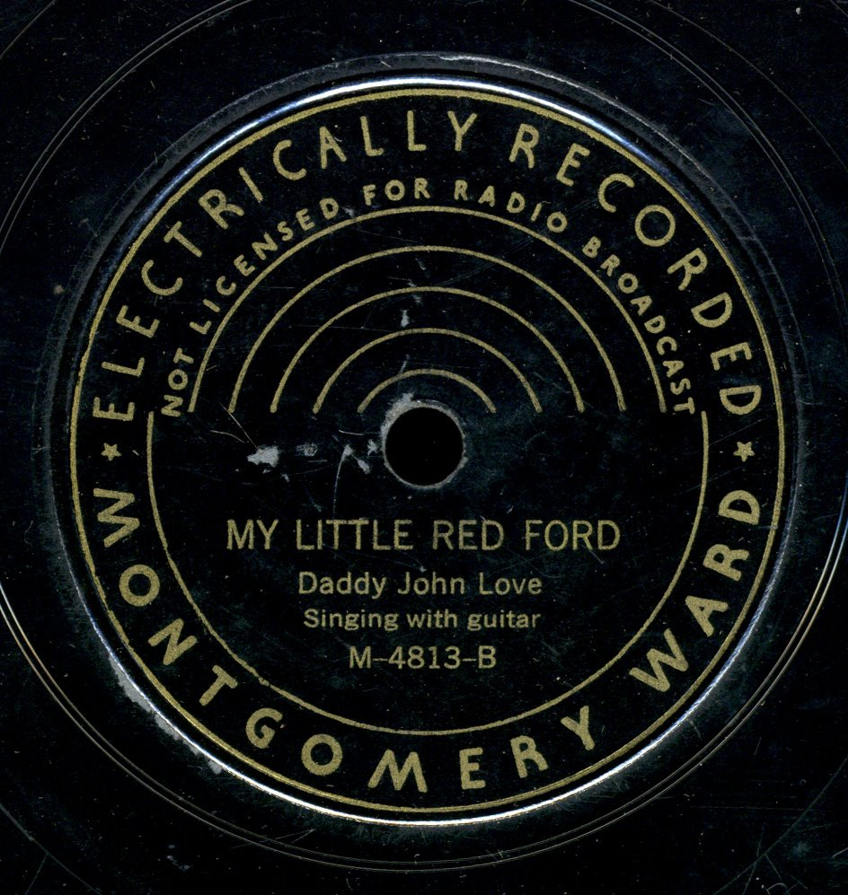 My Little Red Ford by Daddy John Love, Montgomery Ward 1936.